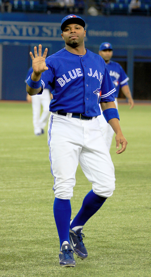 Rajai Davis - Toronto Blue Jays outfielder.